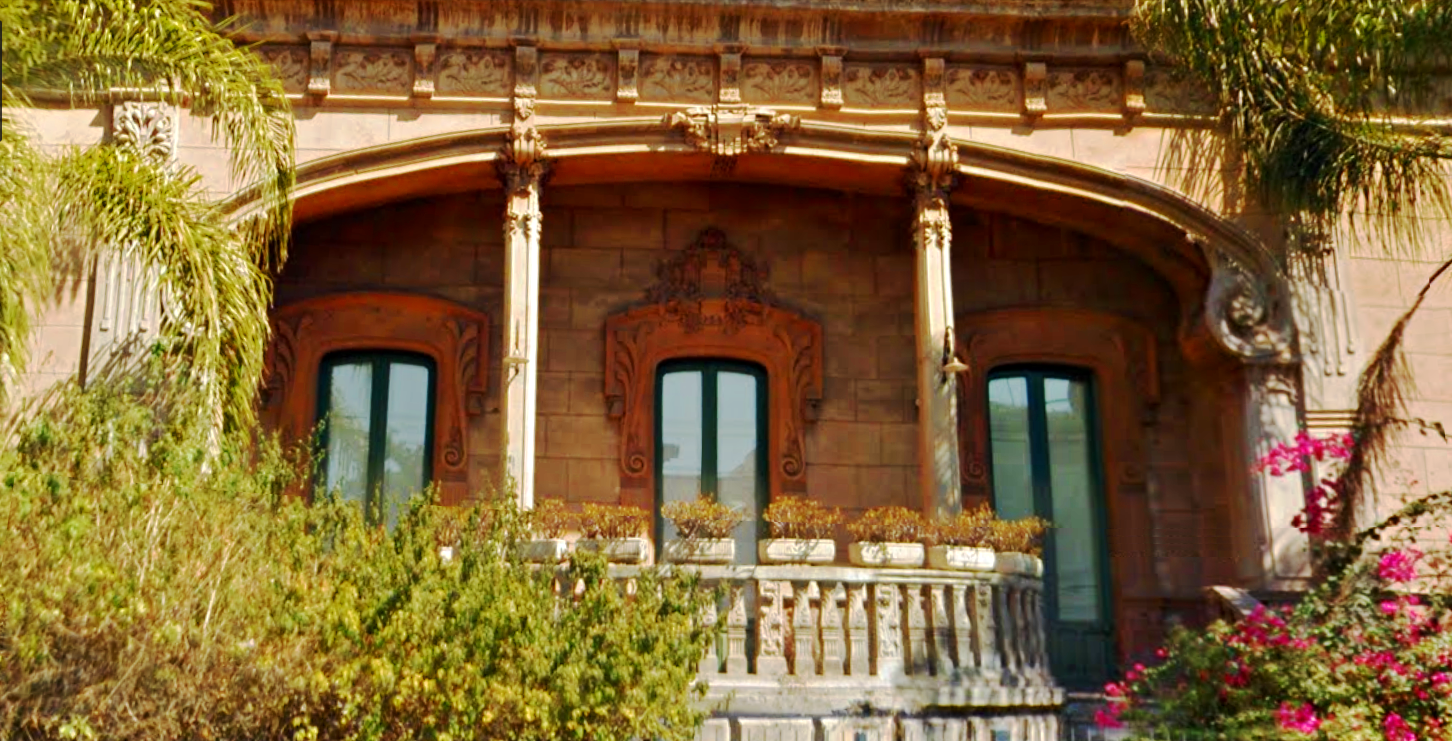 Villa Ardizzone, Viale Mario Rapisardi, Catania, arch. Carmelo Malerba Guerreri (1)